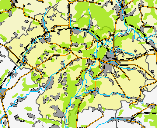 Okhtyrka raion, Sumy oblast, Ukraine